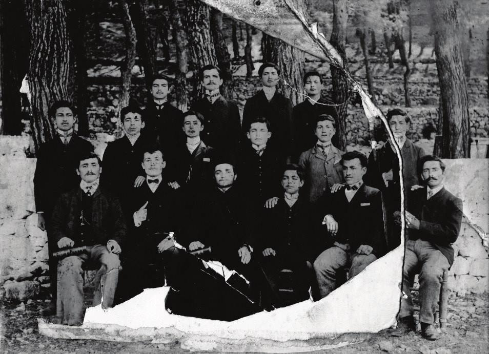 Spiridon Papahristos in Samos Church School.